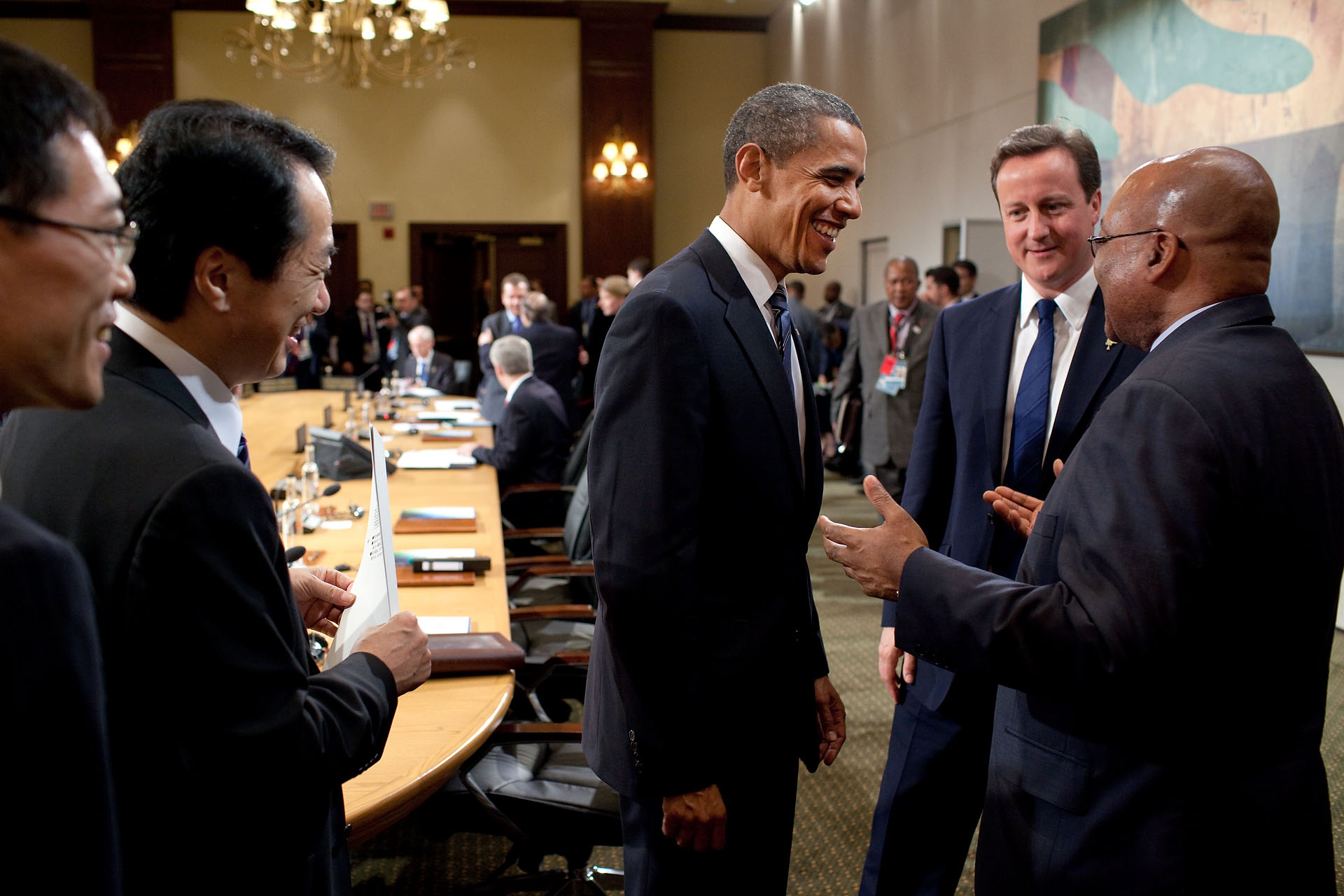 Naoto Kan, Prime Minister, Barack Obama, President, David Cameron, Prime Minister, and Jacob Zuma, President, talked at the session with African Outreach Leaders at the 36th G8 summit in Muskoka District Municipality, Ontario Province on June 25, 2010.